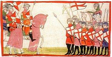 Nuova Cronica